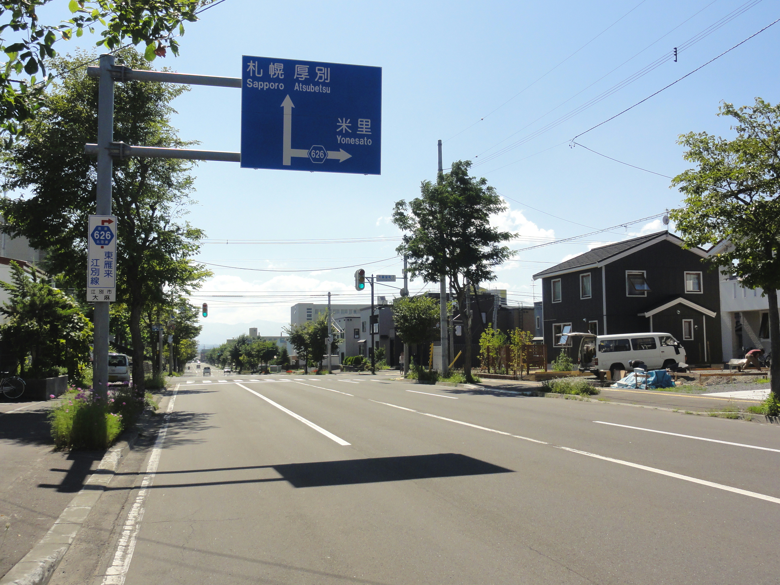 Hokkaido Pref Route 626 (Ebetsu, Hokkaidō)